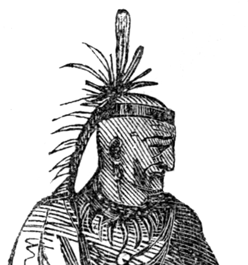 I have isolated and cropped the character on the far left assuming that the caption "Chiefs Cornstalk, Logan and Red Eagle" starts from the left. This is one of the earliest depictions of Chief Cornstalk.